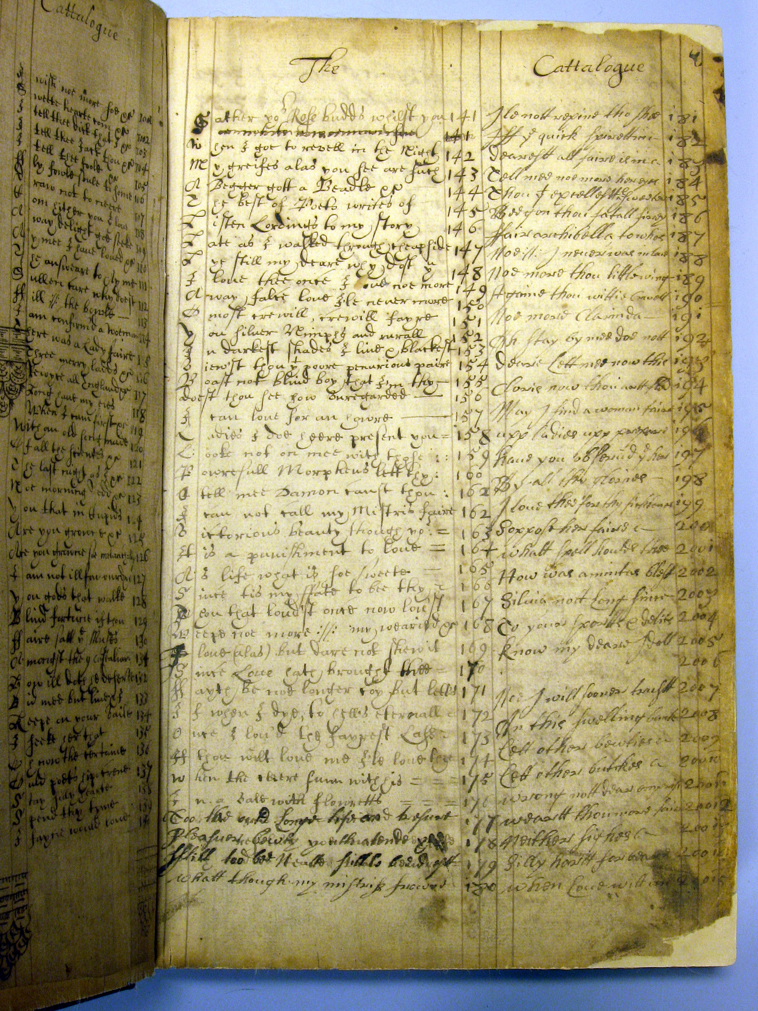 Folio 4 recto, showing "The Cattalogue" with portions contributed by three different hands